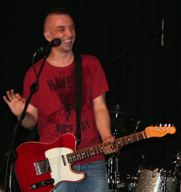 Photo of Andrius Mamontovas during his concert in Zurich, Switzerland on November 3, 2007.